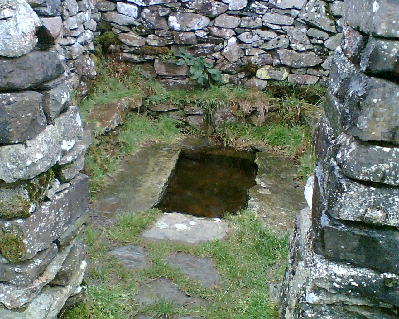 Photo of Llangylennin Church Well. Taken by me, 7.1.07, and released to the Public Domain Hogyn Lleol 20:01, 7 January 2007 (UTC)